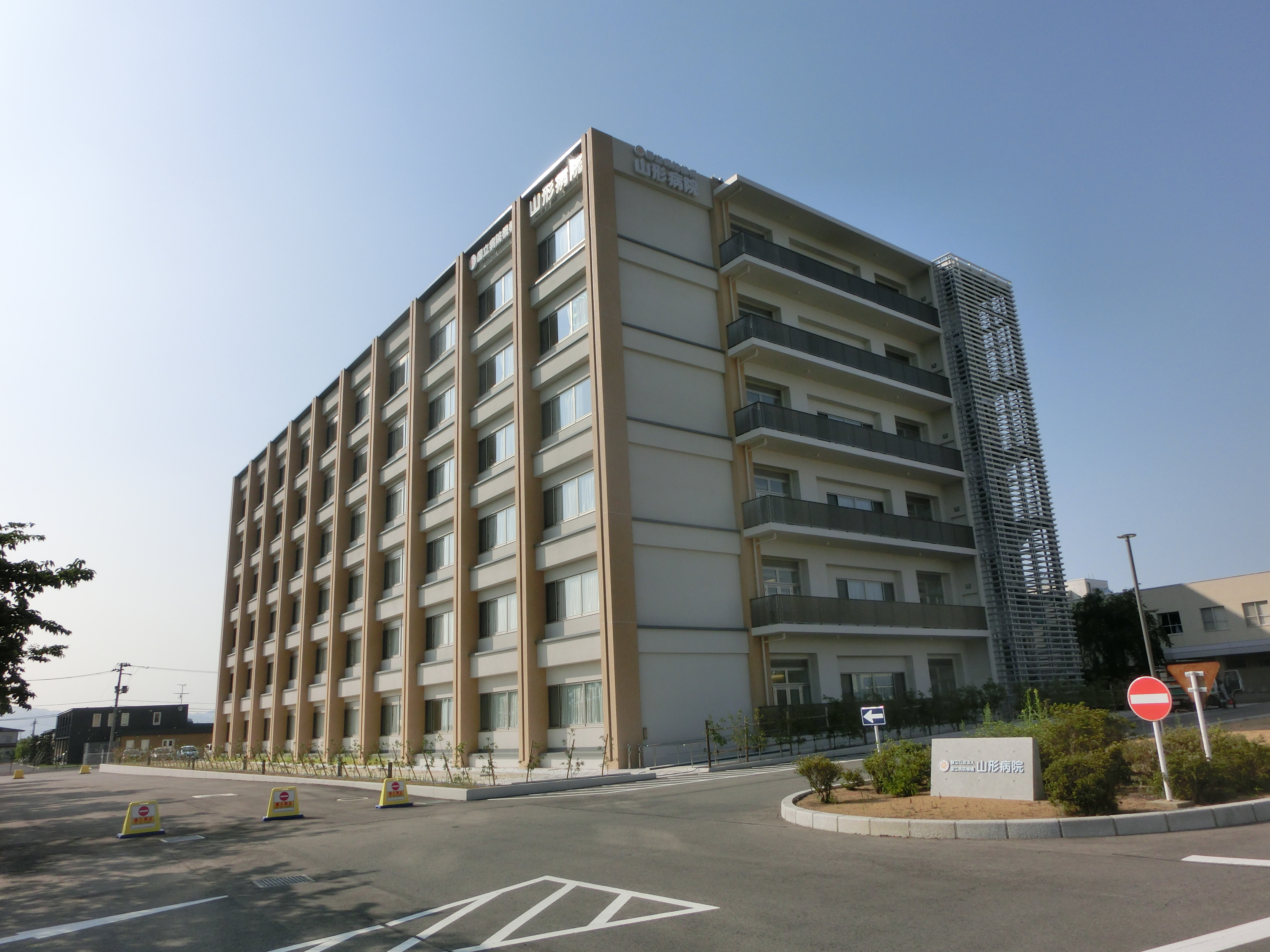 National Hospital Organization Yamagata National Hospital